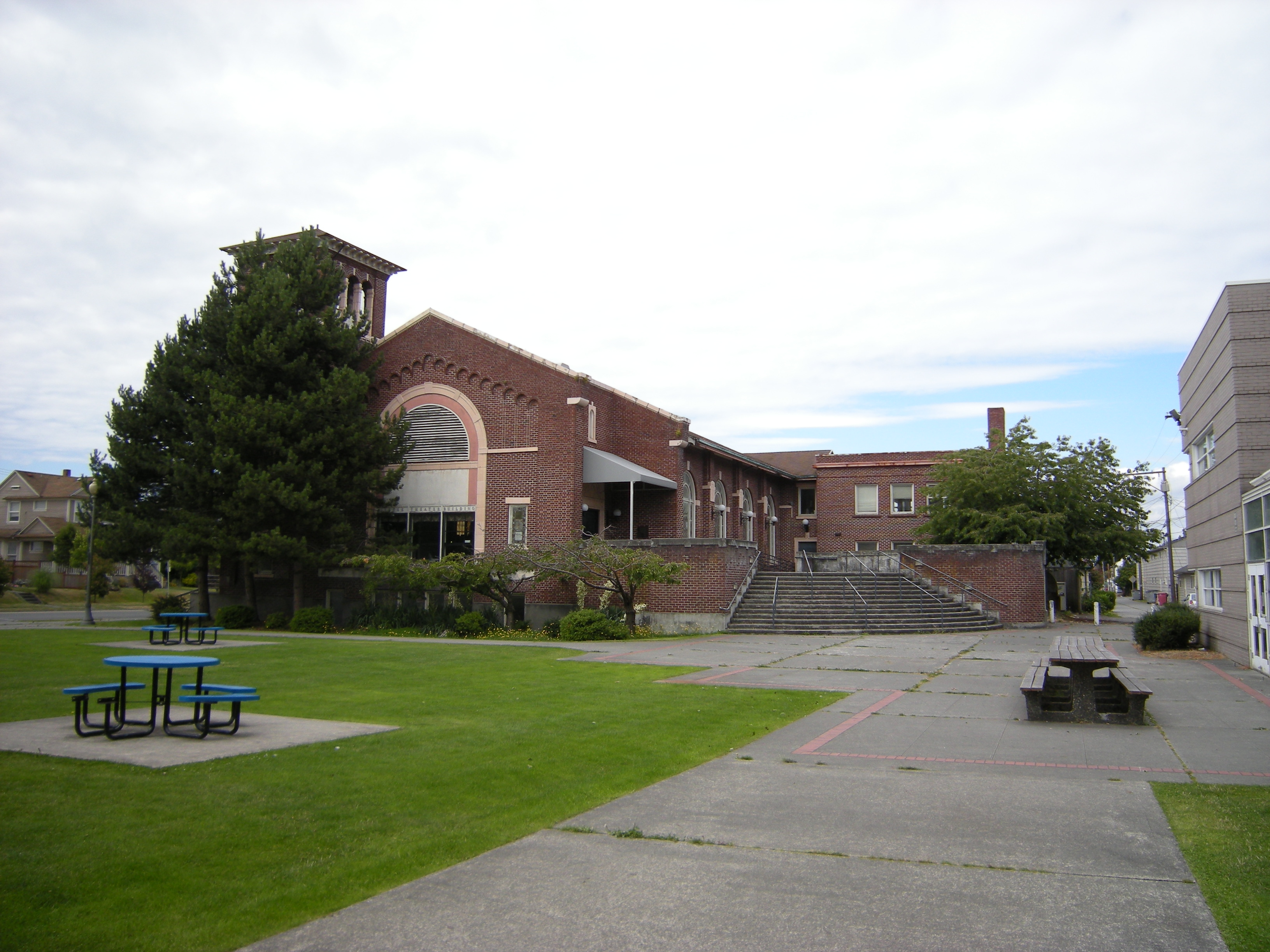 Little Theater (a former church, I presume), Everett High School, 2400 Colby Avenue, Everett, Washington.